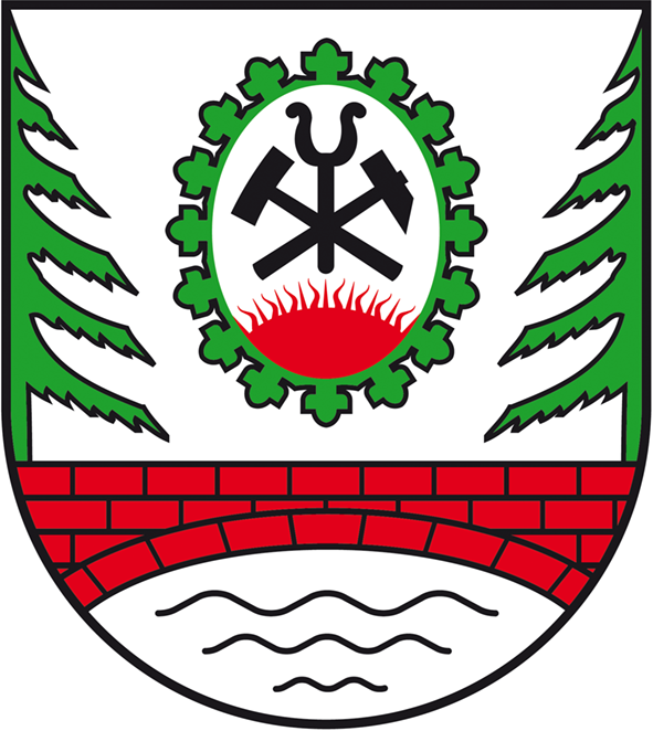 Coat of arms of Muldenhammer